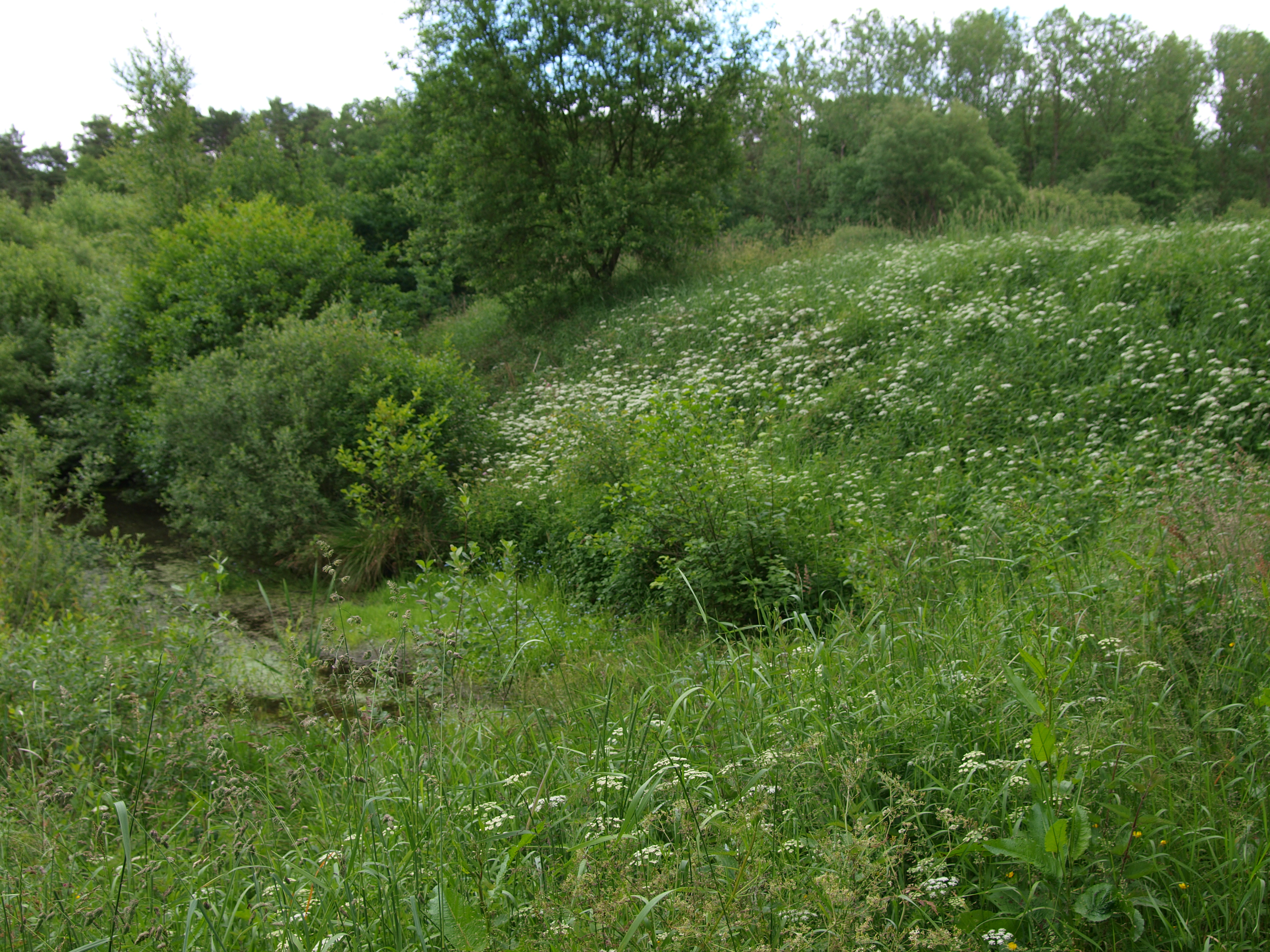 Burgwall Hollenstedt, or Karlsburg or Burg Hollenstedt. A reconstructed low land castle of the Carolingian period 9th century A.D. Western part of the outer rampart with moat.